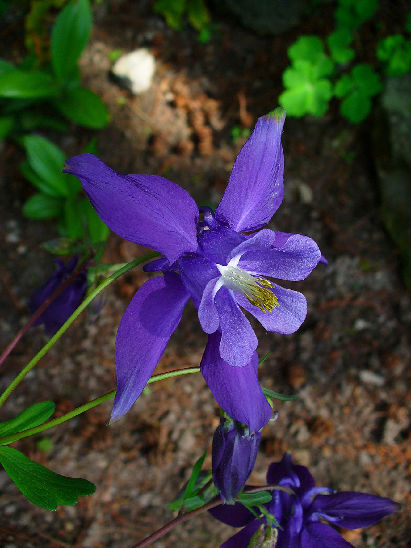 Aquilegia alpina, Ranunculaceae, Alpine Columbine, flower; Botanical Garden KIT, Karlsruhe, Germany.